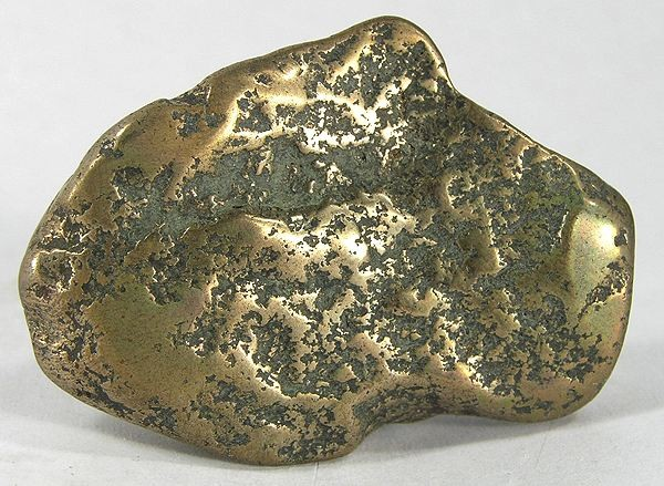 Mohawkite Locality: Ahmeek, Keweenaw County, Michigan, USA (Locality at ) Size: 4.8 x 3.7 x 1.3 cm. "Mohawkite", a rare mixture of copper and copper arsenides, is named after the Mohawk-Ahmeek area of Keweenaw County in Michigan. This 2.9-ounce nugget has been polished to show its pretty silvery tone with a hint of gold. Mined in the 1950s.